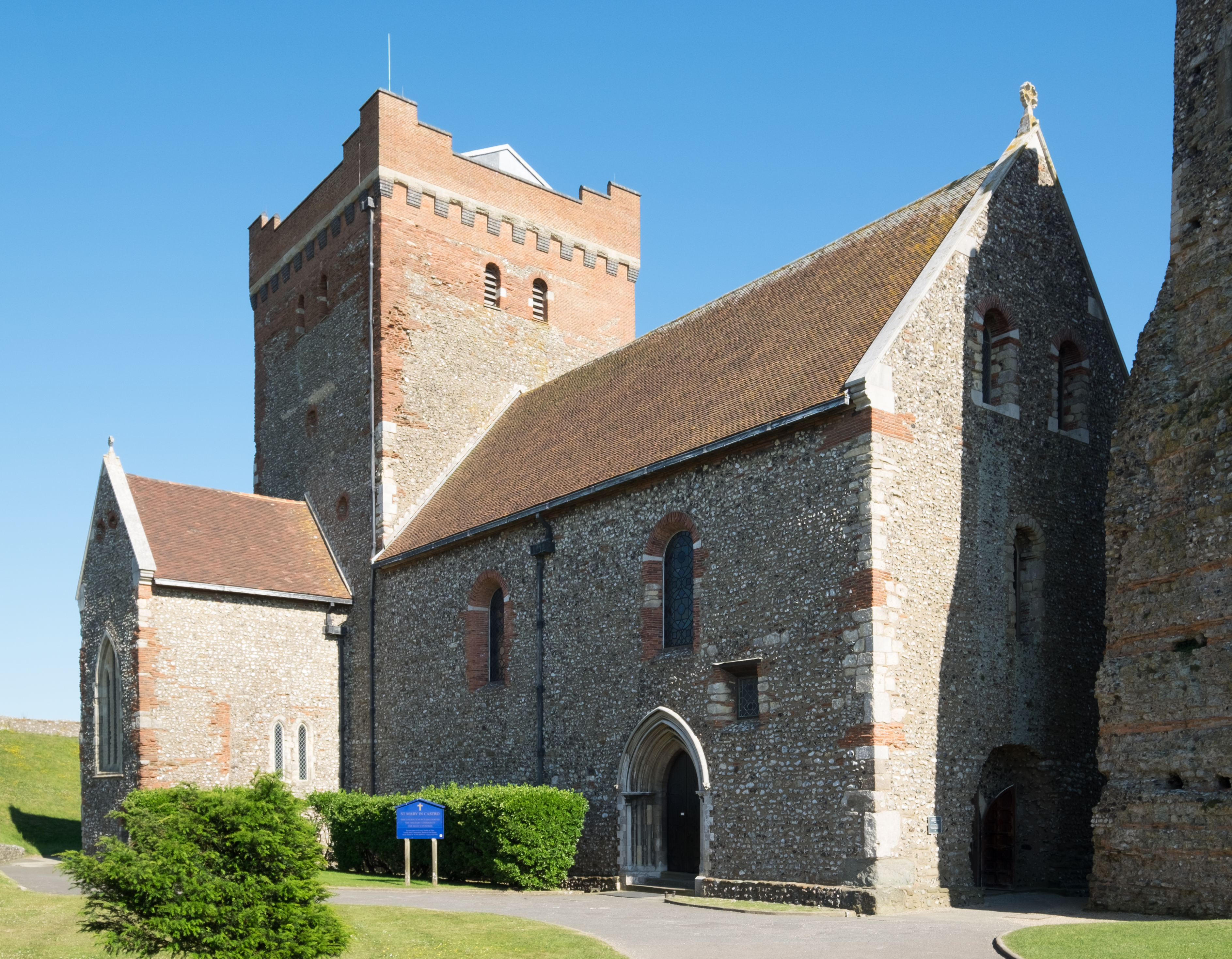 The Church of St Mary-in-Castro, Dover Castle. This church, founded by 1020 and build next to a Roman lighthouse, is a grade I listed building in England.